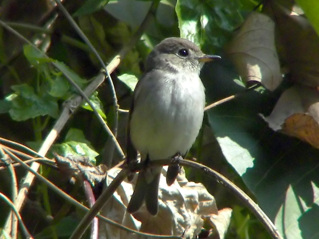 Asian Brown Flycatcher (Muscicapa dauurica)